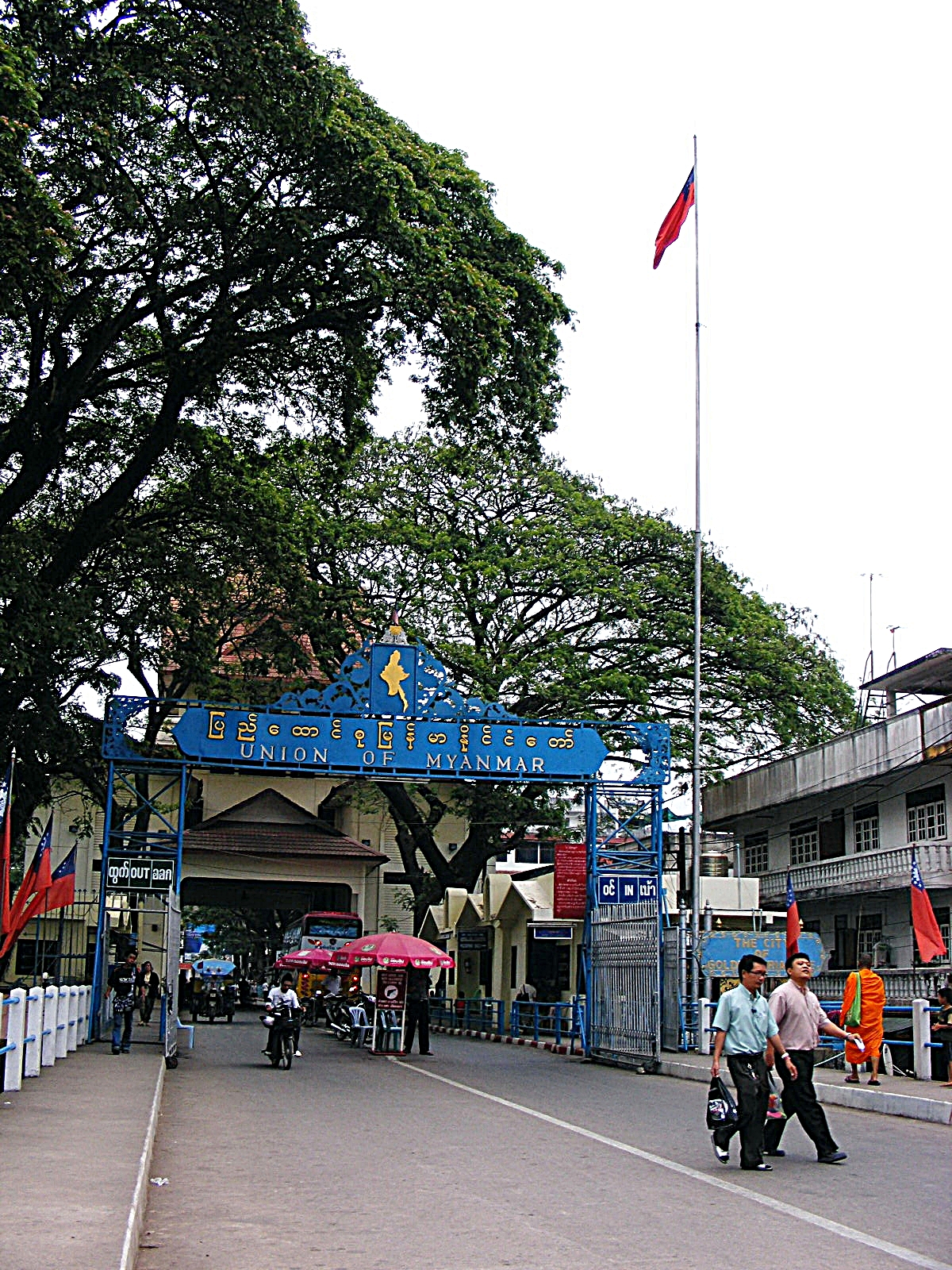 Myanmar-Thailand bridge in Mae Sai.